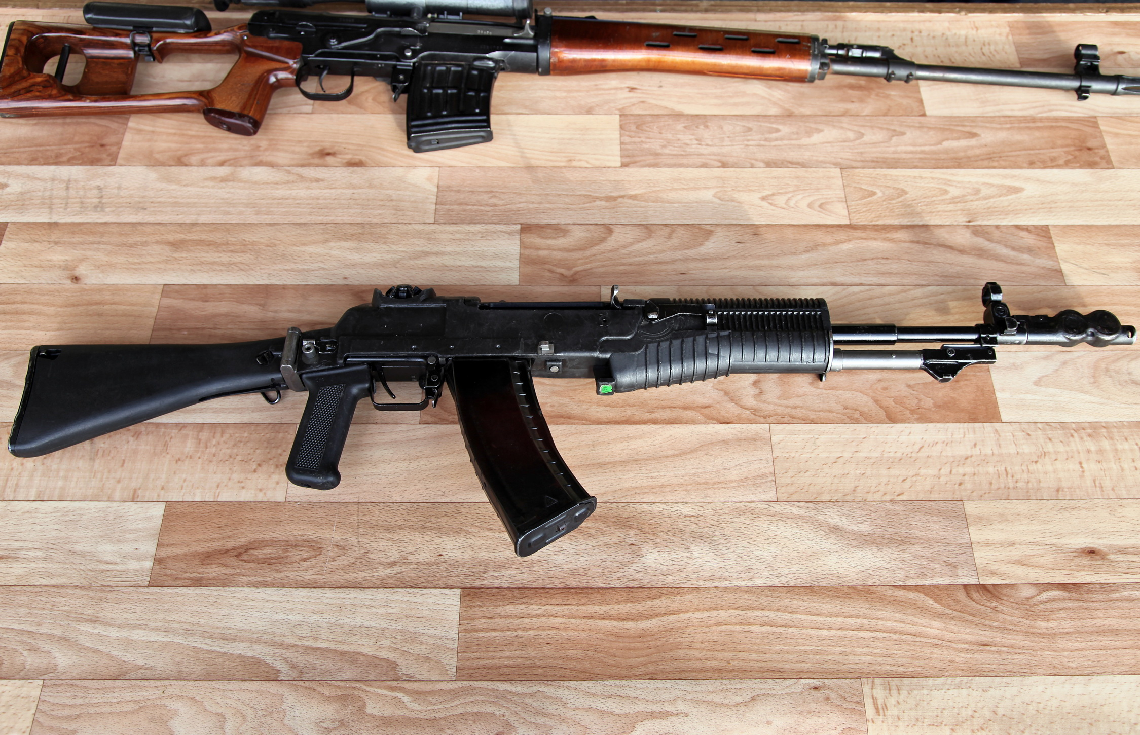 AN-94 Abakan